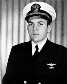 Lieutenant (jg) Elliot See, USNR, during deployment on USS Boxer